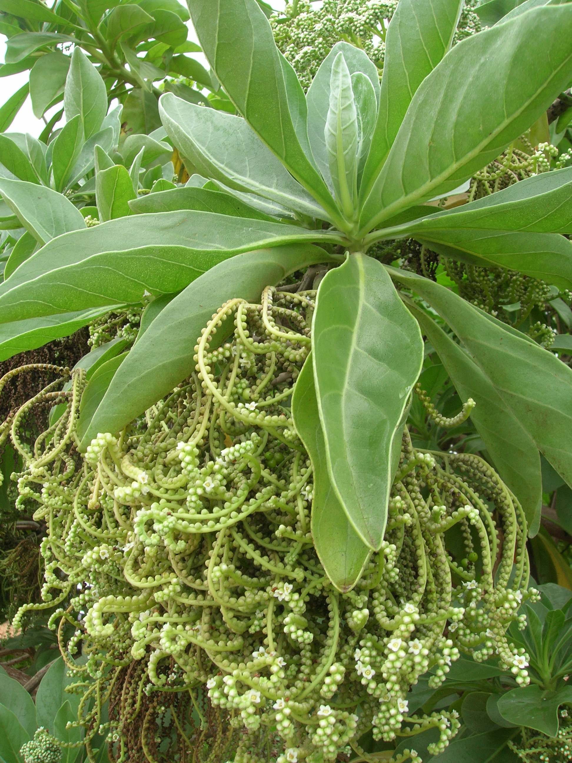 Tournefortia argentea (leaves and flowers). Location: Maui, Kanaha Beach